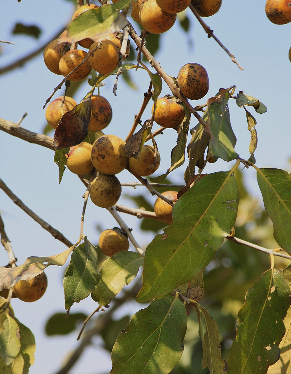 Photo taken near Kanakapura Road, Bangalore